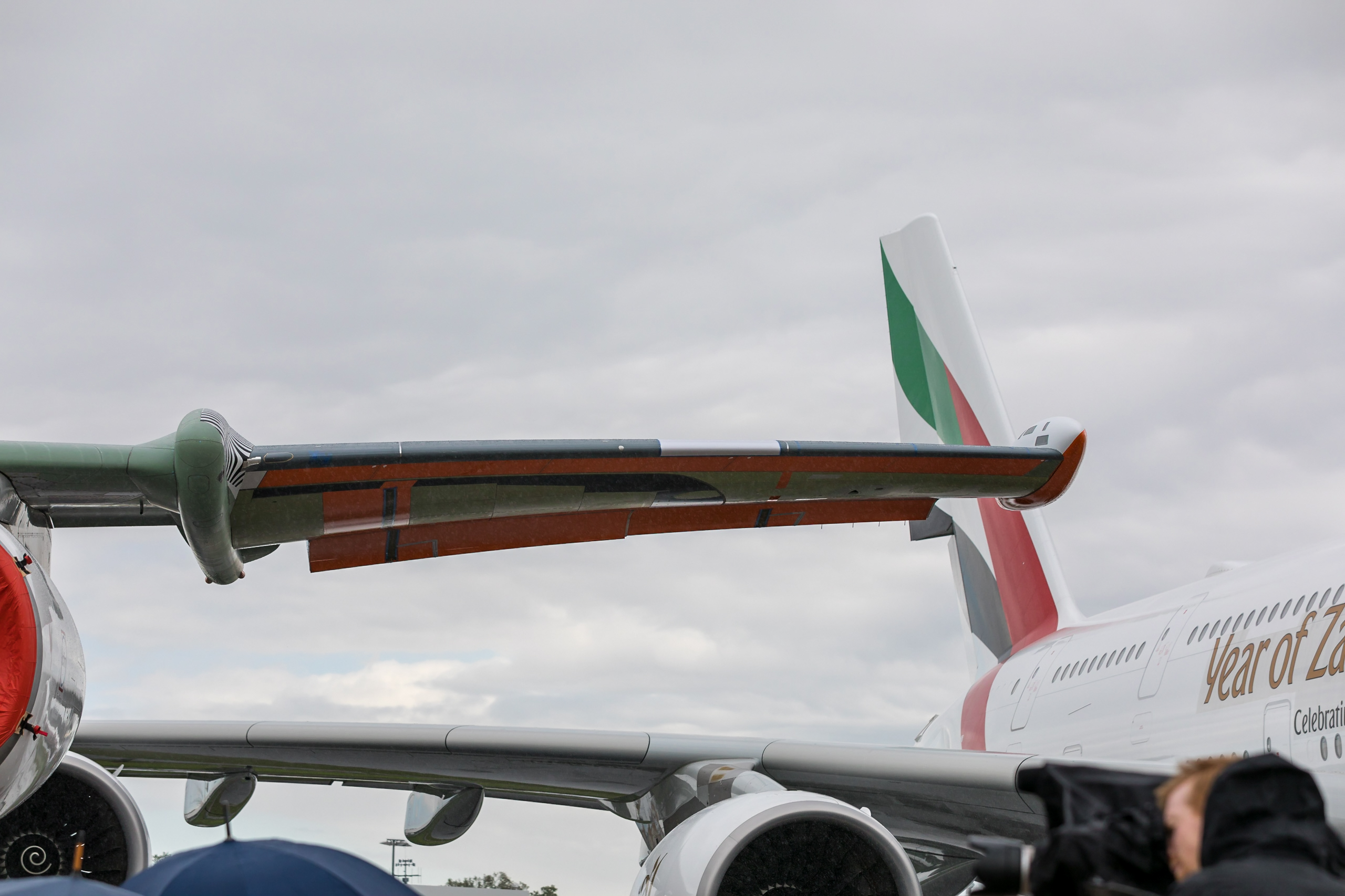 Wing of the Airbus A340-300 BLADE at ILA 2018